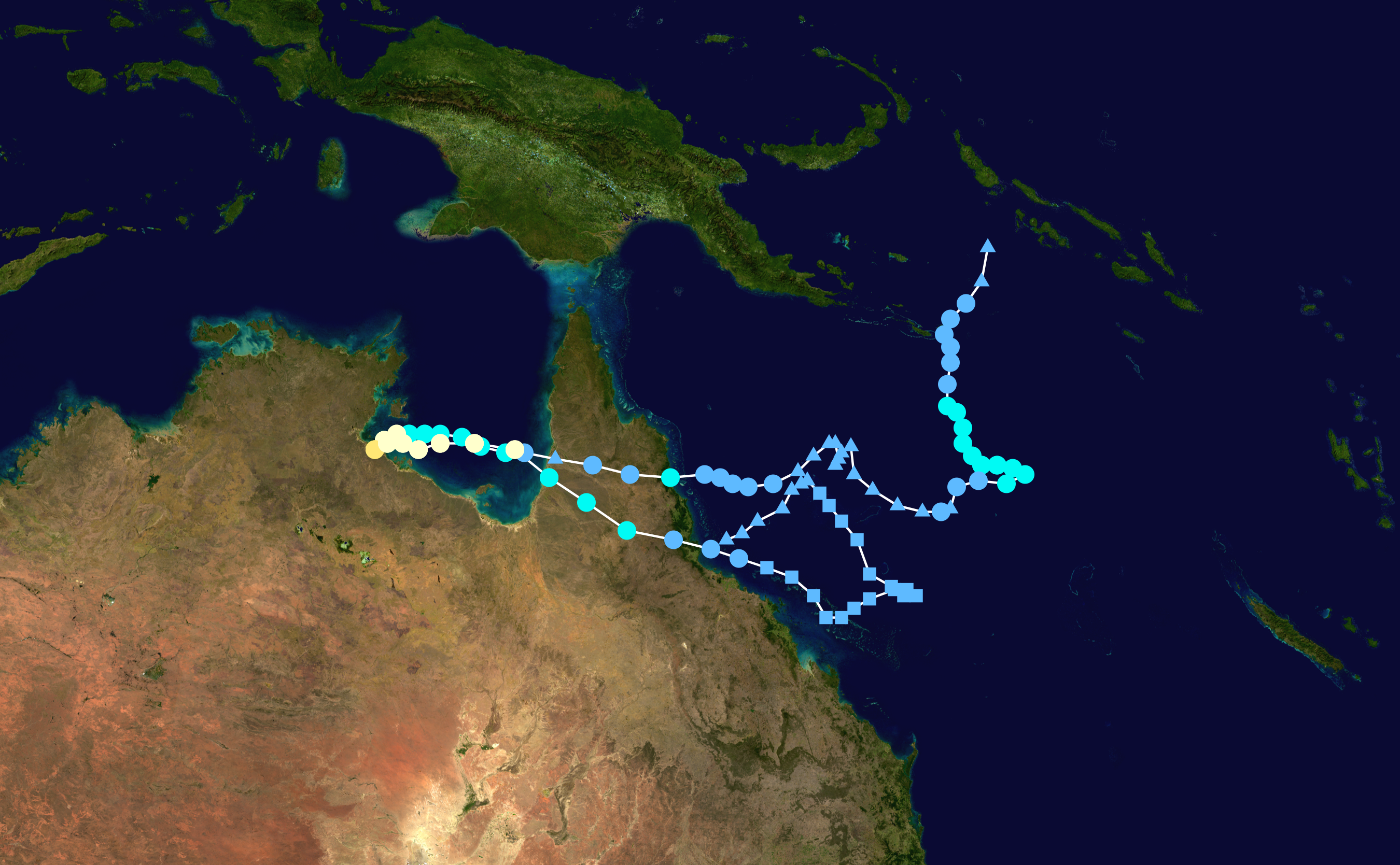 Track map of Severe Tropical Cyclone Owen of the 2018-19 Australian region cyclone season. The points show the location of the storm at 6-hour intervals. The colour represents the storm's maximum sustained wind speeds as classified in the Saffir–Simpson scale (see below), and the shape of the data points represent the nature of the storm, according to the legend below. Saffir–Simpson scale Tropical depression≤38 mph≤62 km/h Category 3111–129 mph178–208 km/h Tropical storm39–73 mph63–118 km/h Category 4130–156 mph209–251 km/h Category 174–95 mph119–153 km/h Category 5≥157 mph≥252 km/h Category 296–110 mph154–177 km/h Unknown Storm type Tropical cyclone Subtropical cyclone Extratropical cyclone / Remnant low / Tropical disturbance